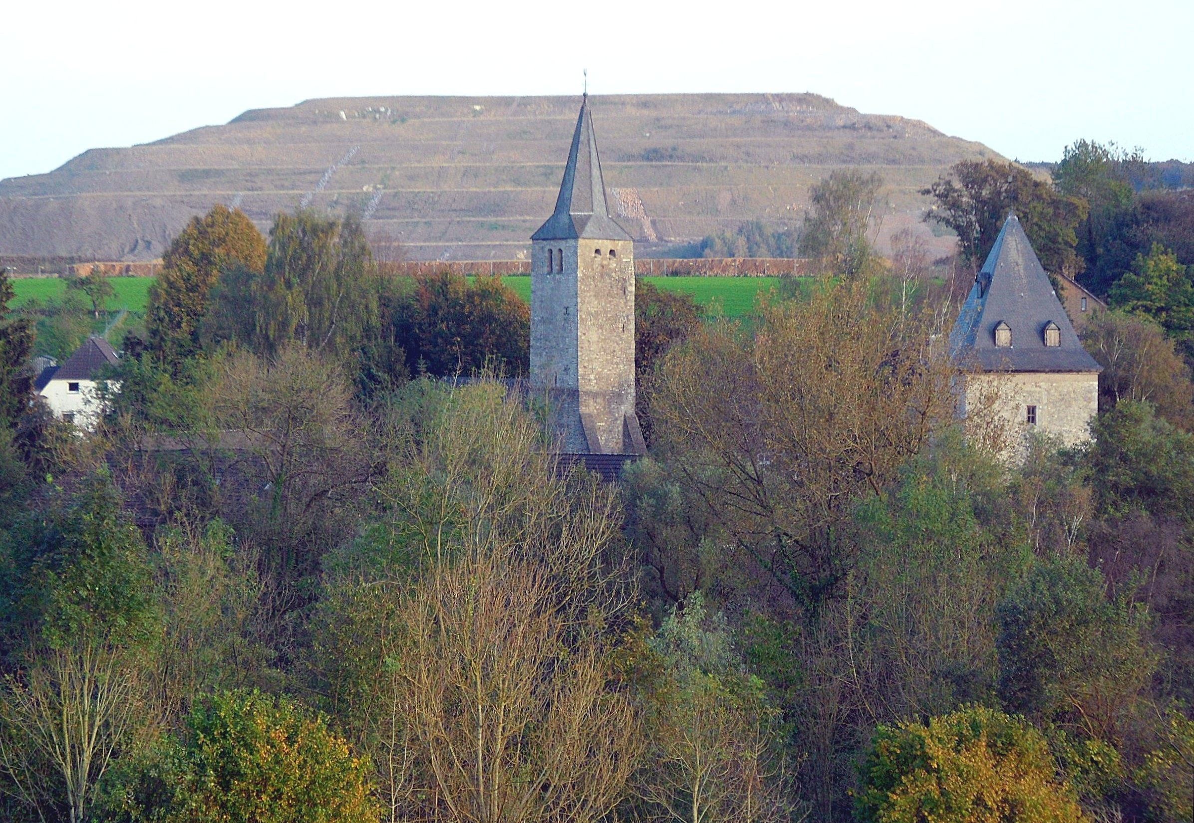 Wuppertal-Schöller: protestant parish church (centre), and defence tower of Gut Schöller (right); in background premises for limestone mining; October 2014